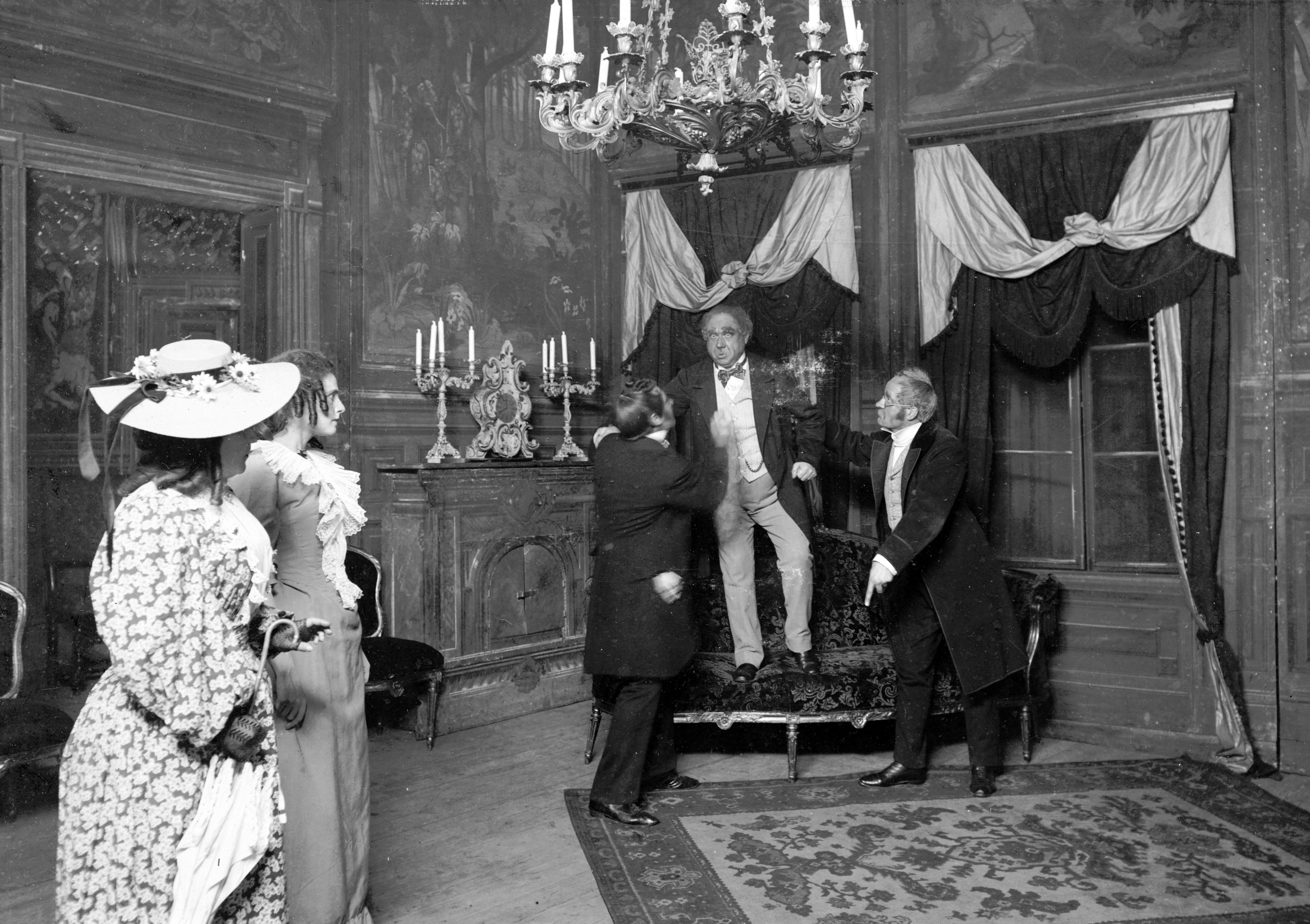 Maria Hagman, Gerda Stiegler, Axel Wesslau, Gustaf Bergström and Gunnar Lundberg in Le Docteur Chiendent, ou l’Héritage de Rocambole 1899